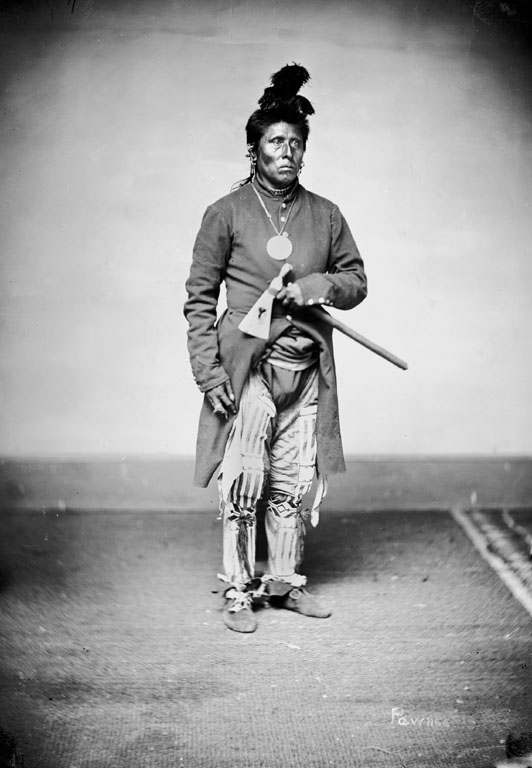 Te-Low-A-Lut-La-Sha (Sky Chief), a Pawnee chief killed in 1873 in Massacre Canyon in Nebraska with many members of his tribe while on a buffalo hunt. They were attacked by a much larger Sioux war party. Picture taken in 1868 in Washington, D.C. by photohrapher William Henry Jackson.